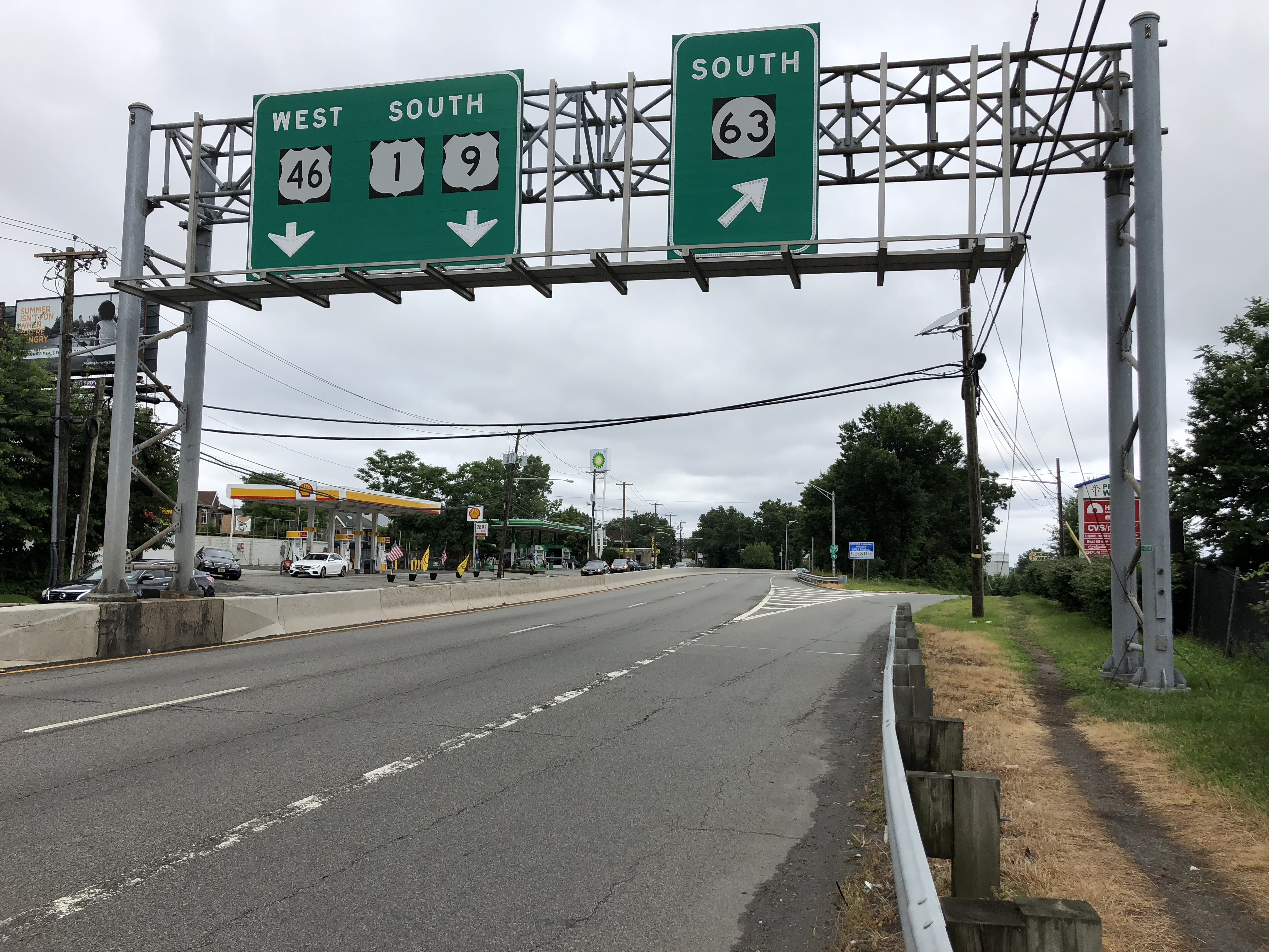 View south along U.S. Route 1 and U.S. Route 9 and west along U.S. Route 46 at the exit for New Jersey State Route 63 SOUTH in Fort Lee, Bergen County, New Jersey